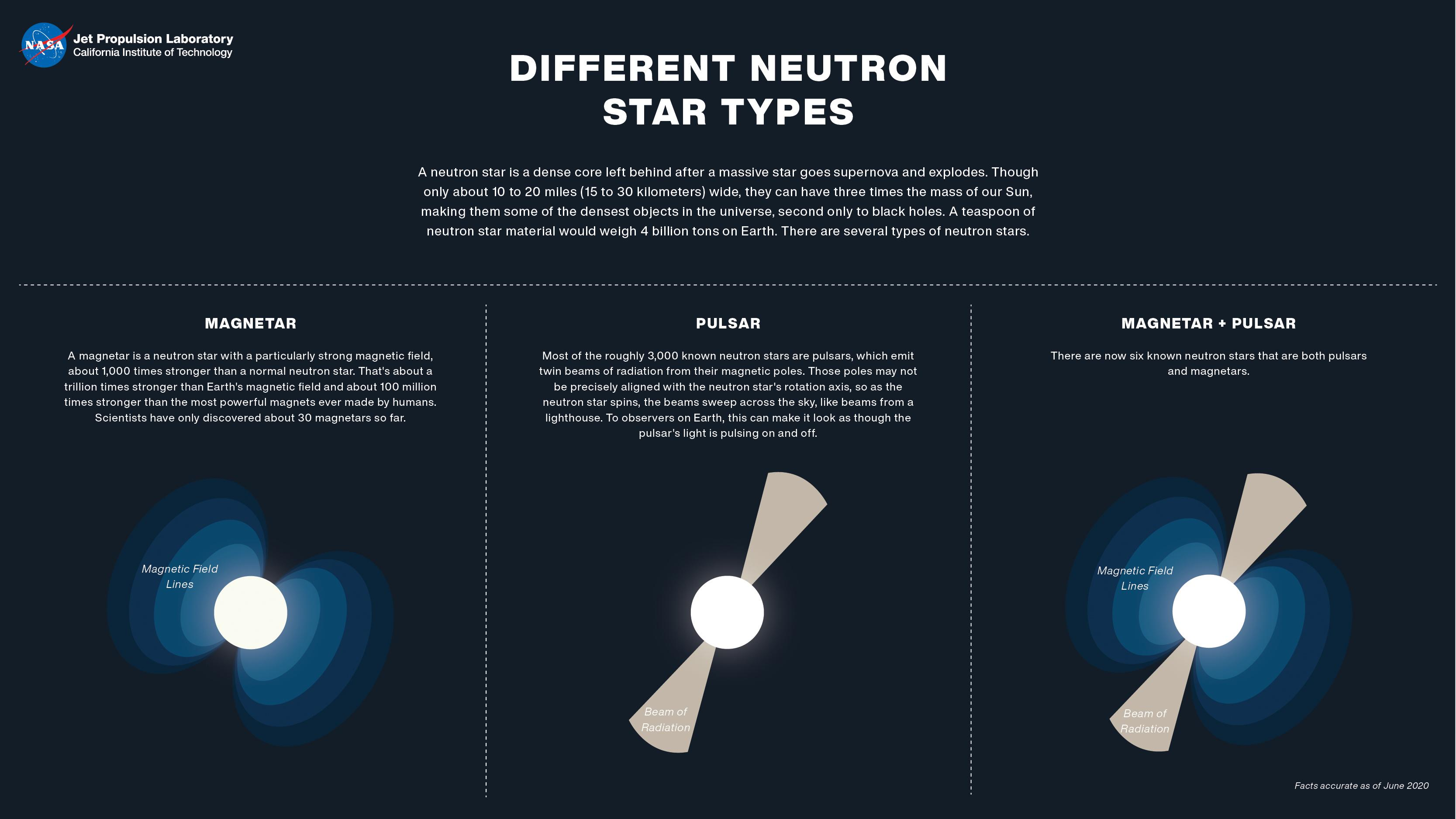 PIA23863: Different Types of Neutron Stars (Illustration) Neutron stars, or cores leftover from exploded stars, are some of the densest objects in the universe. There are several types of neutron stars, including magnetars and pulsars. NuSTAR is a Small Explorer mission led by Caltech in Pasadena and managed by NASA's Jet Propulsion Laboratory, also in Pasadena, for NASA's Science Mission Directorate in Washington. For more information, visit and